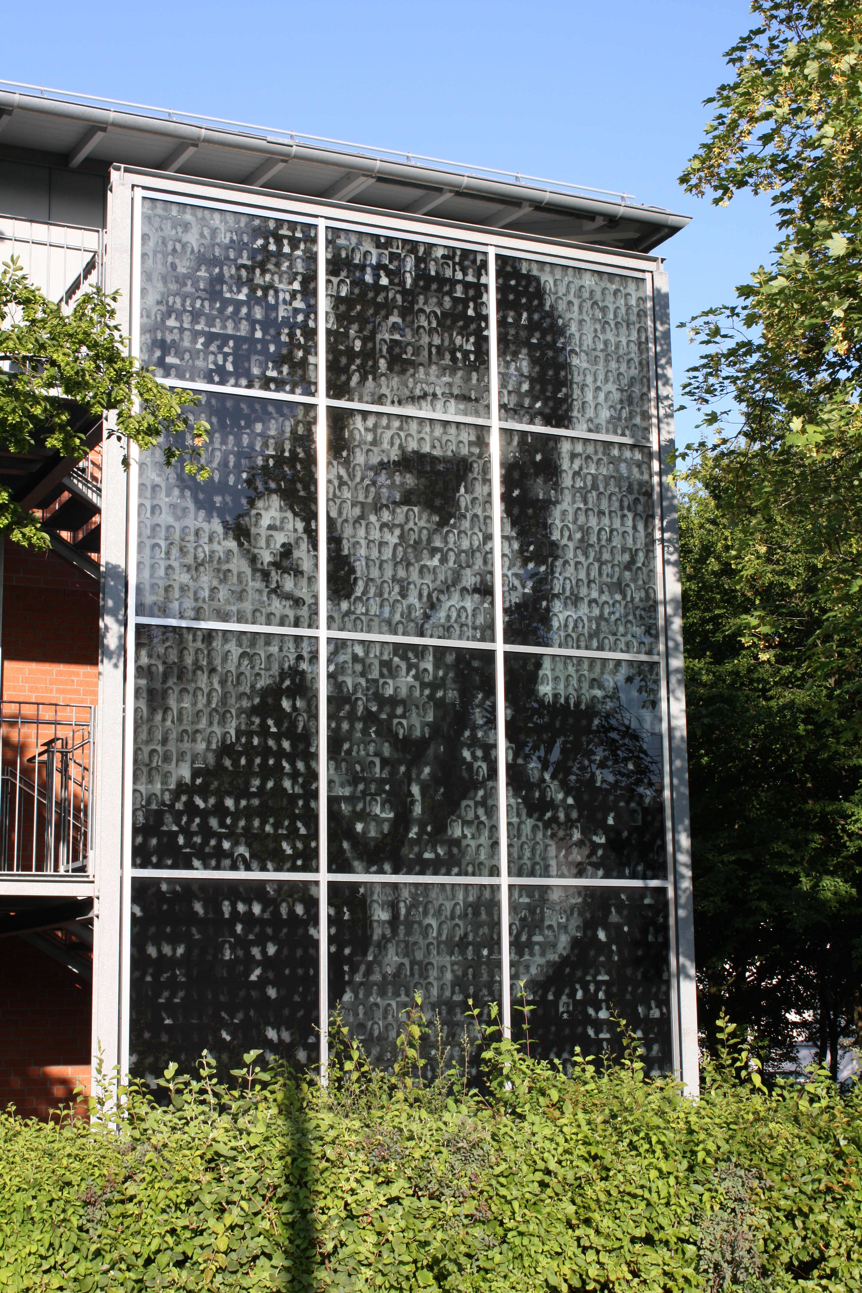 Franz-Marc-Gymnasium, Markt Schwaben, Bavaria, Germany